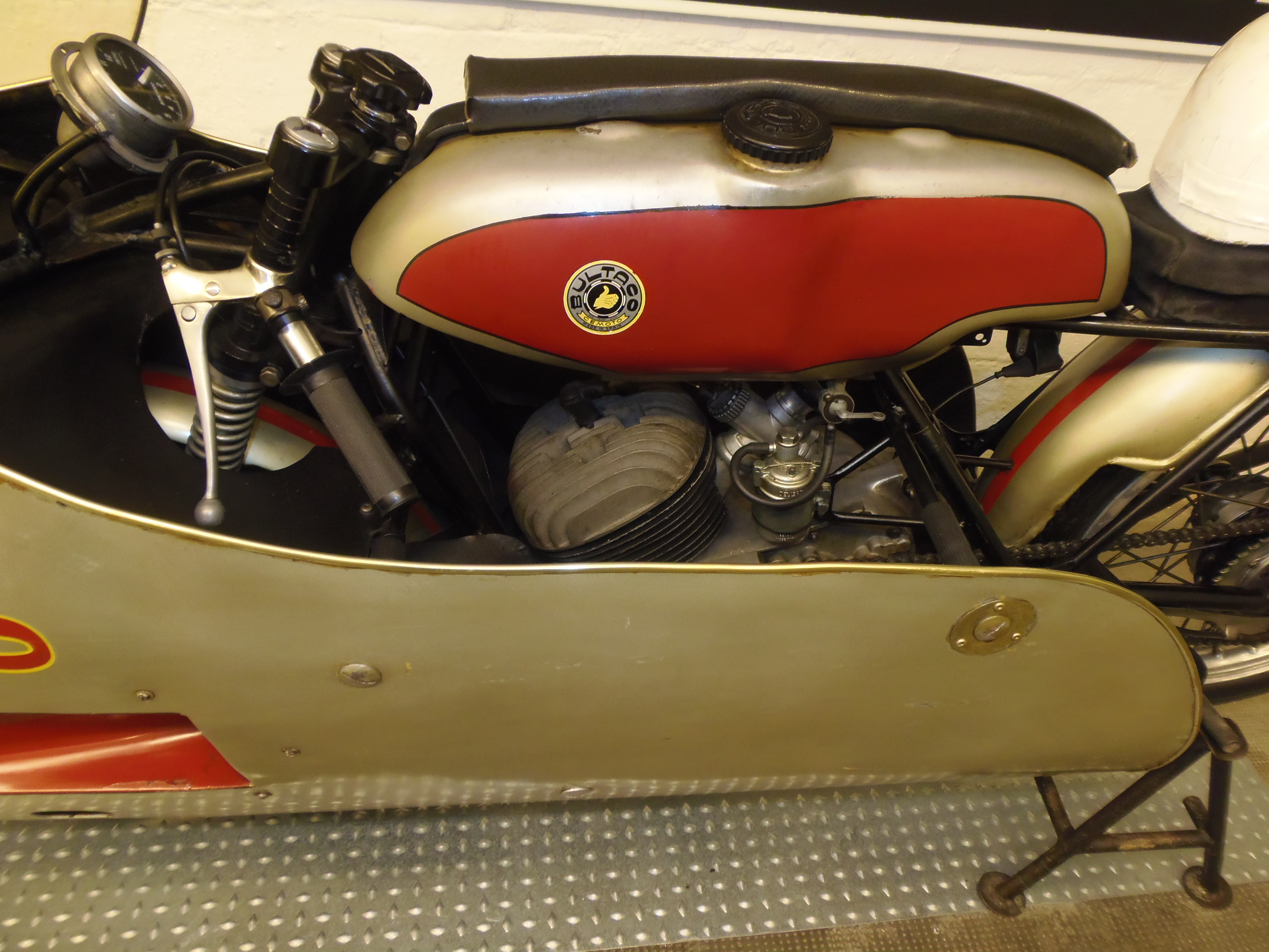 The tank of the Bultaco Cazarecords ("Records hunter") 175cc, 1960